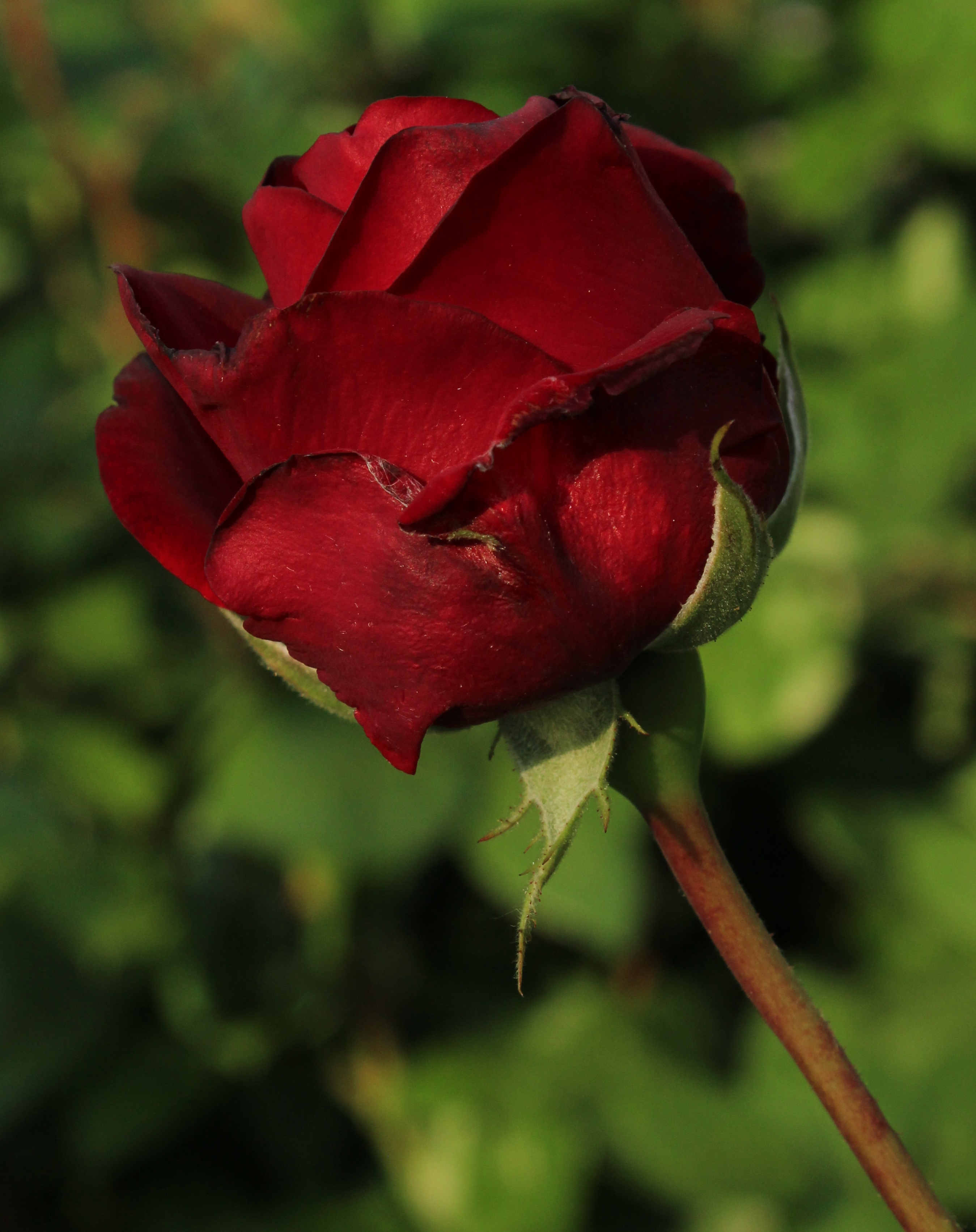 Rosa 'Ingrid Bergman' in the Volksgarten in Vienna. Identified by sign.